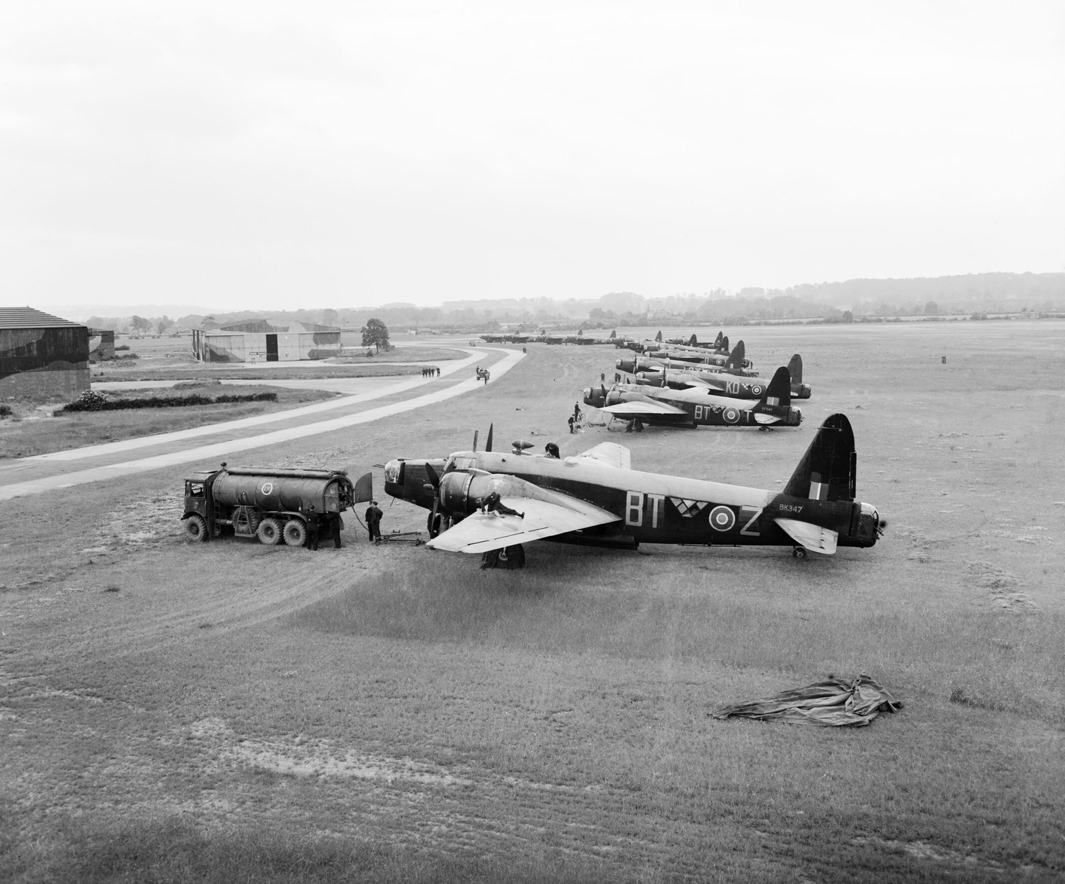 Wellington Mk IIIs of No. 30 Operational Training Unit at Hixon, Staffordshire, 6 September 1943. Wellington Mark IIIs (BK347 ‘BT-Z’ and DF640 ‘BT-T’ in the foreground) of No. 30 Operational Training Unit, lined up at Hixon, Staffordshire, for a leaflet dropping ("Nickelling") sortie over France.